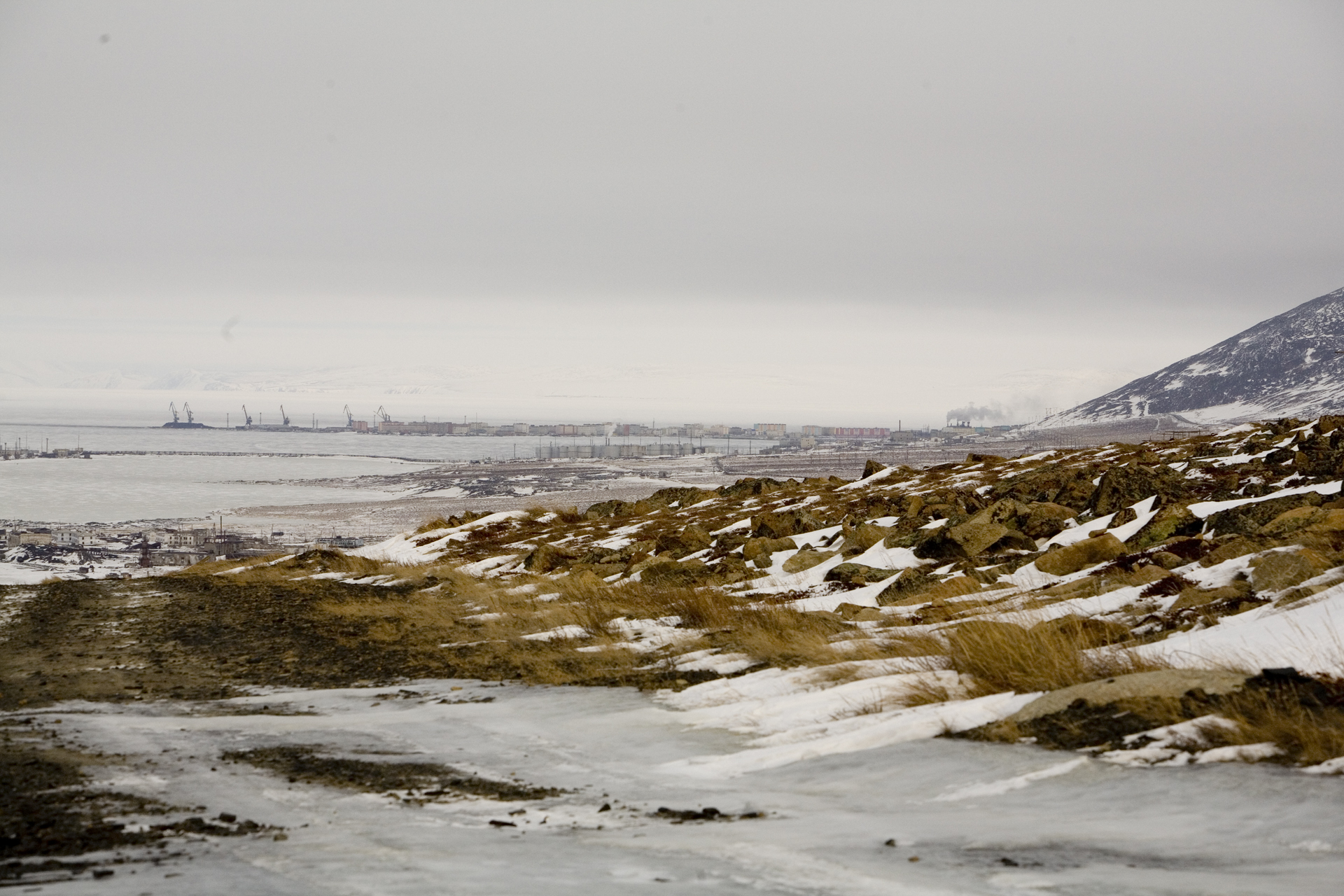 Picture by Brian Tibbets ( January 2008